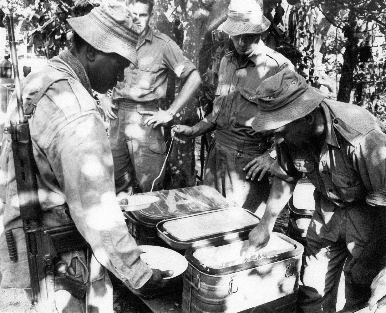 Australian soldier being served a hot meal near fighting zone of Operation Crimp, Vietnam.